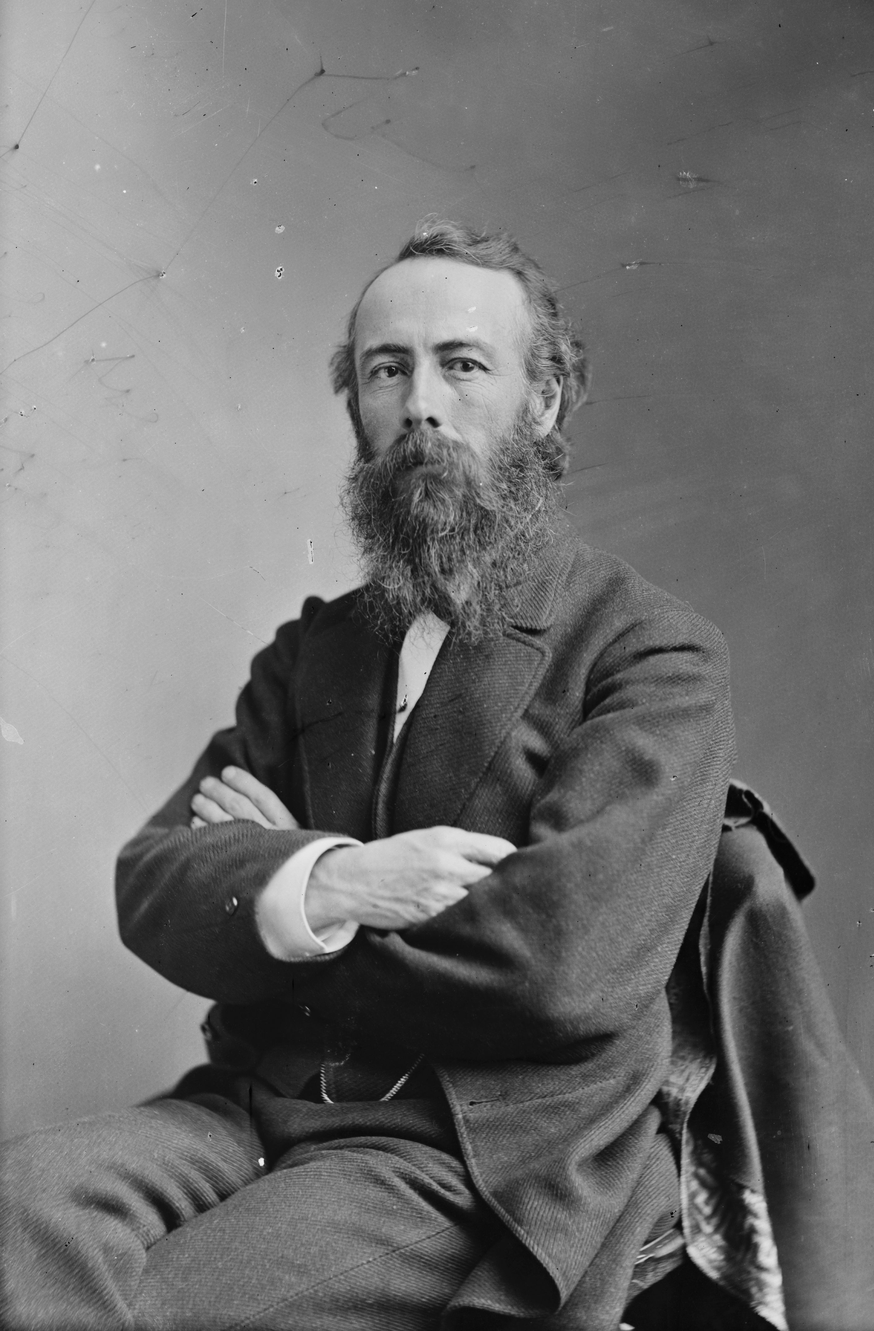 Portrait of Henry V. Boynton, U.S. Army general and Medal of Honor recipient. Original title: "Boynton, Gen. H.V. (not in uniform)"